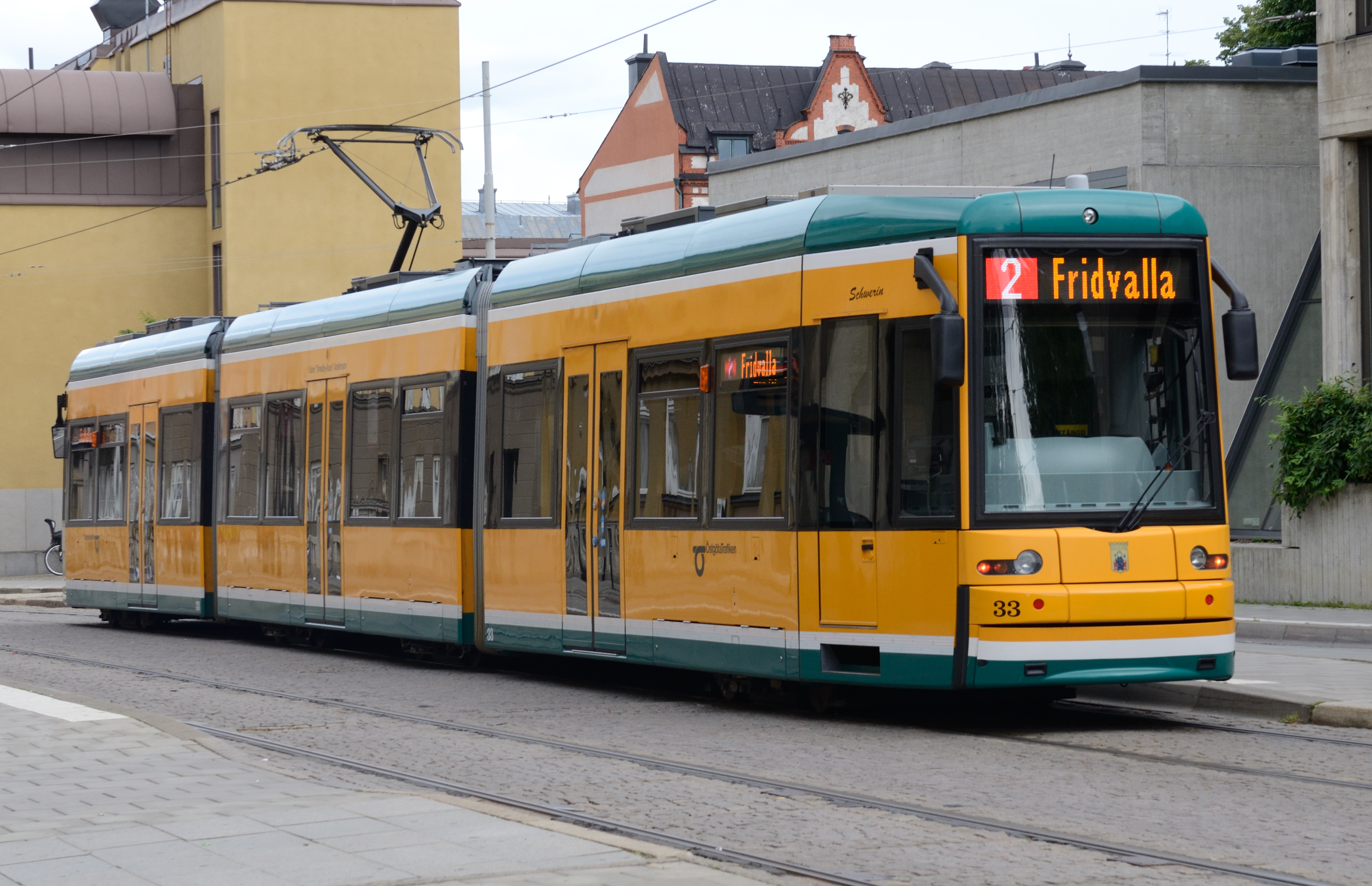 Cable car in Norrköping, Sweden